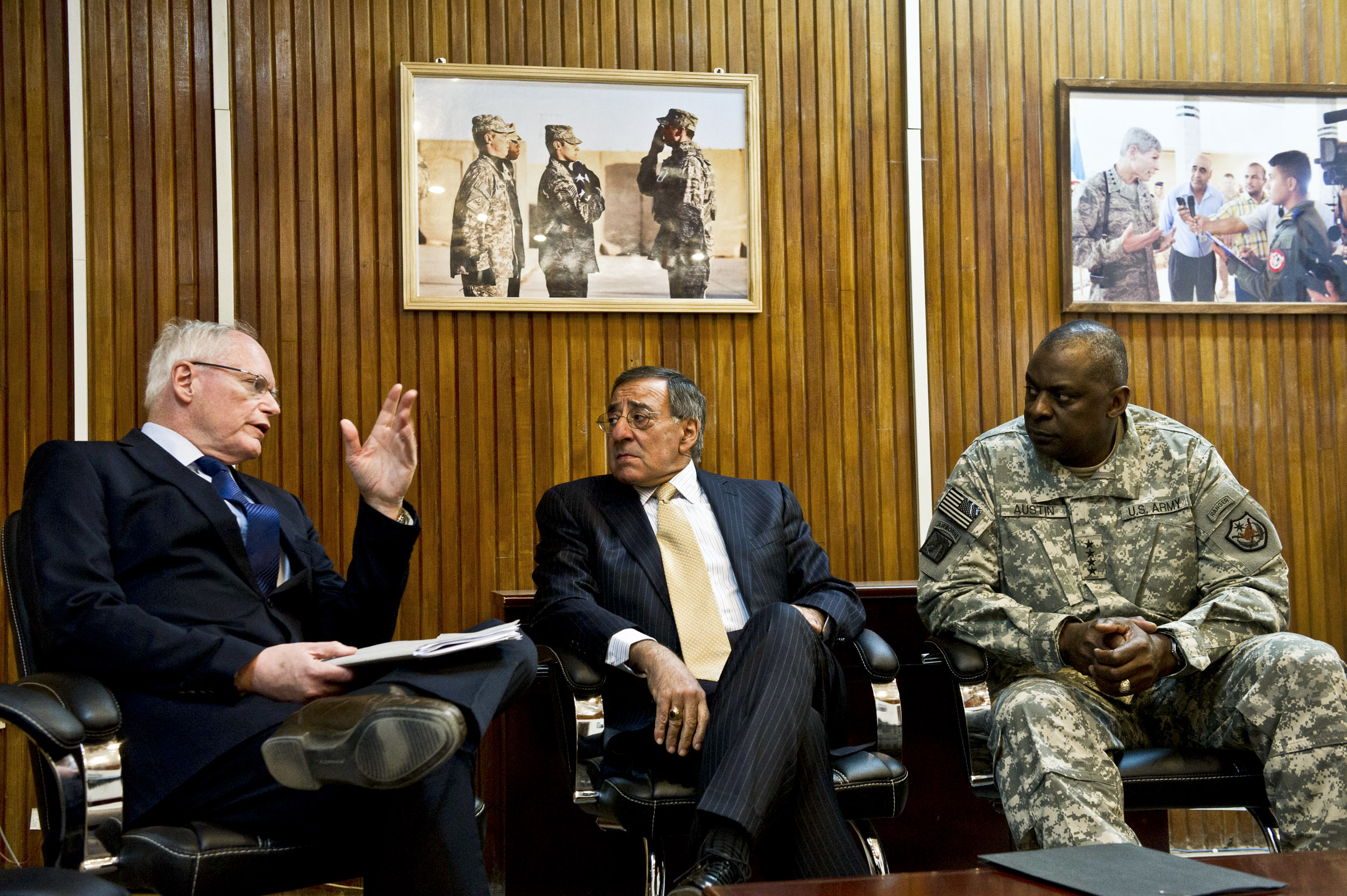 U.S. Defense Secretary Leon E. Panetta, center, meets with U.S. Army Gen. Lloyd J. Austin III, commander of U.S. Forces Iraq, right, and U.S. Ambassador to Iraq James F. Jeffrey, left, before the ceremony marking the end of the U.S. military mission in Iraq in Baghdad, Dec. 15, 2011.